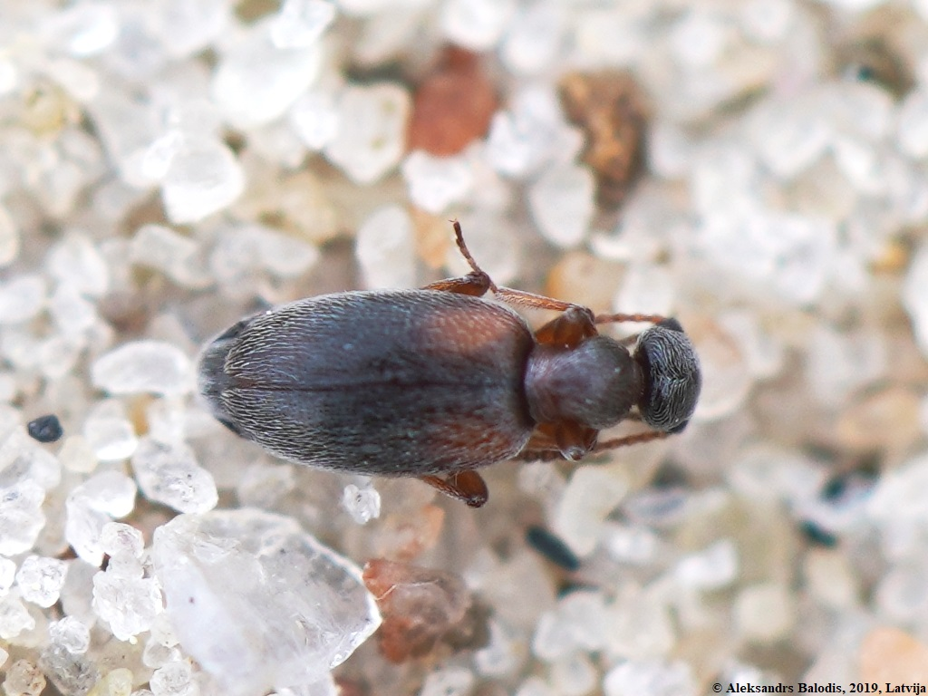 Anthicus axillaris